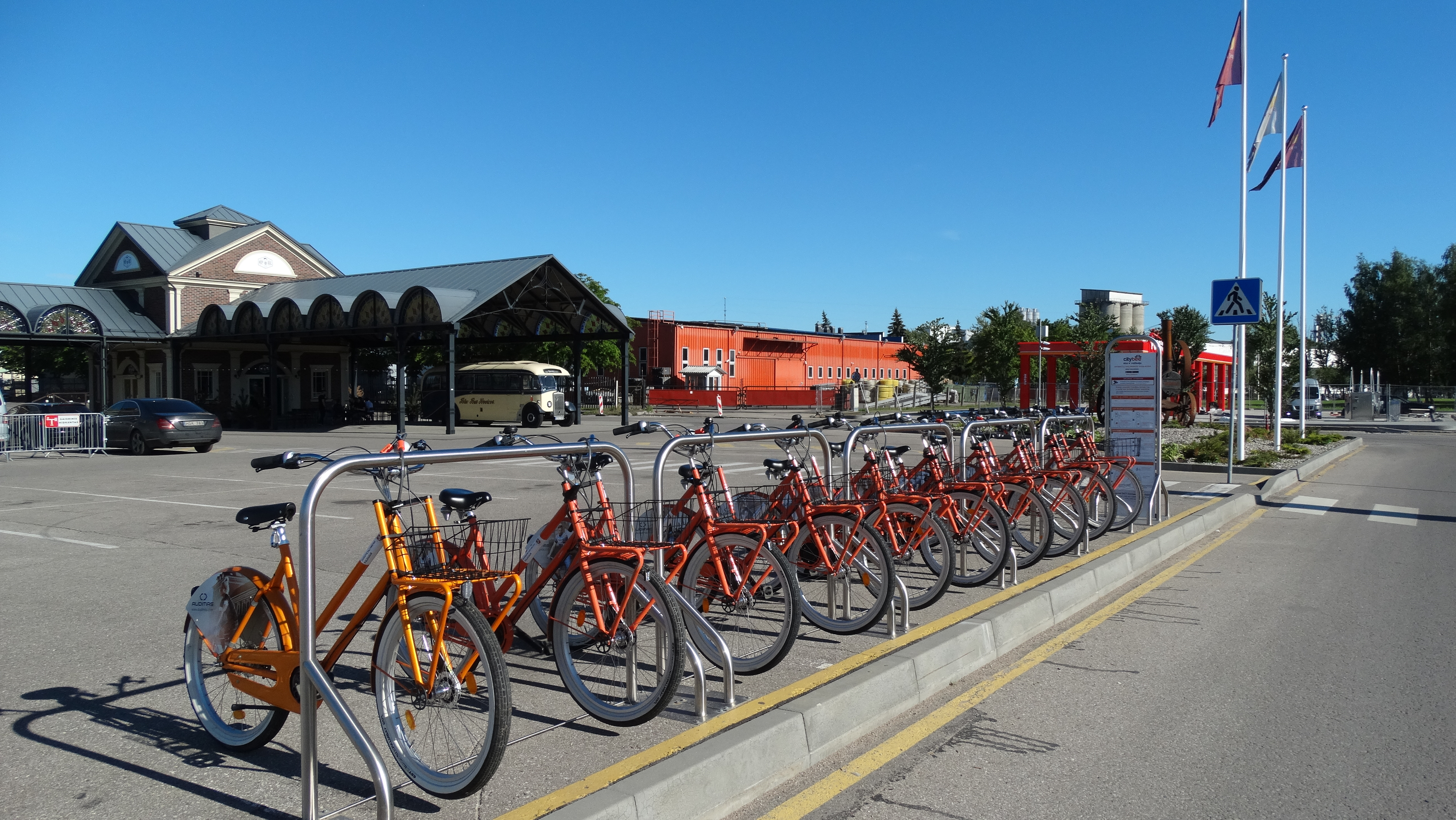 Bicycles, Kaunas, Lithuania